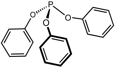 structure of triphenylphosphite